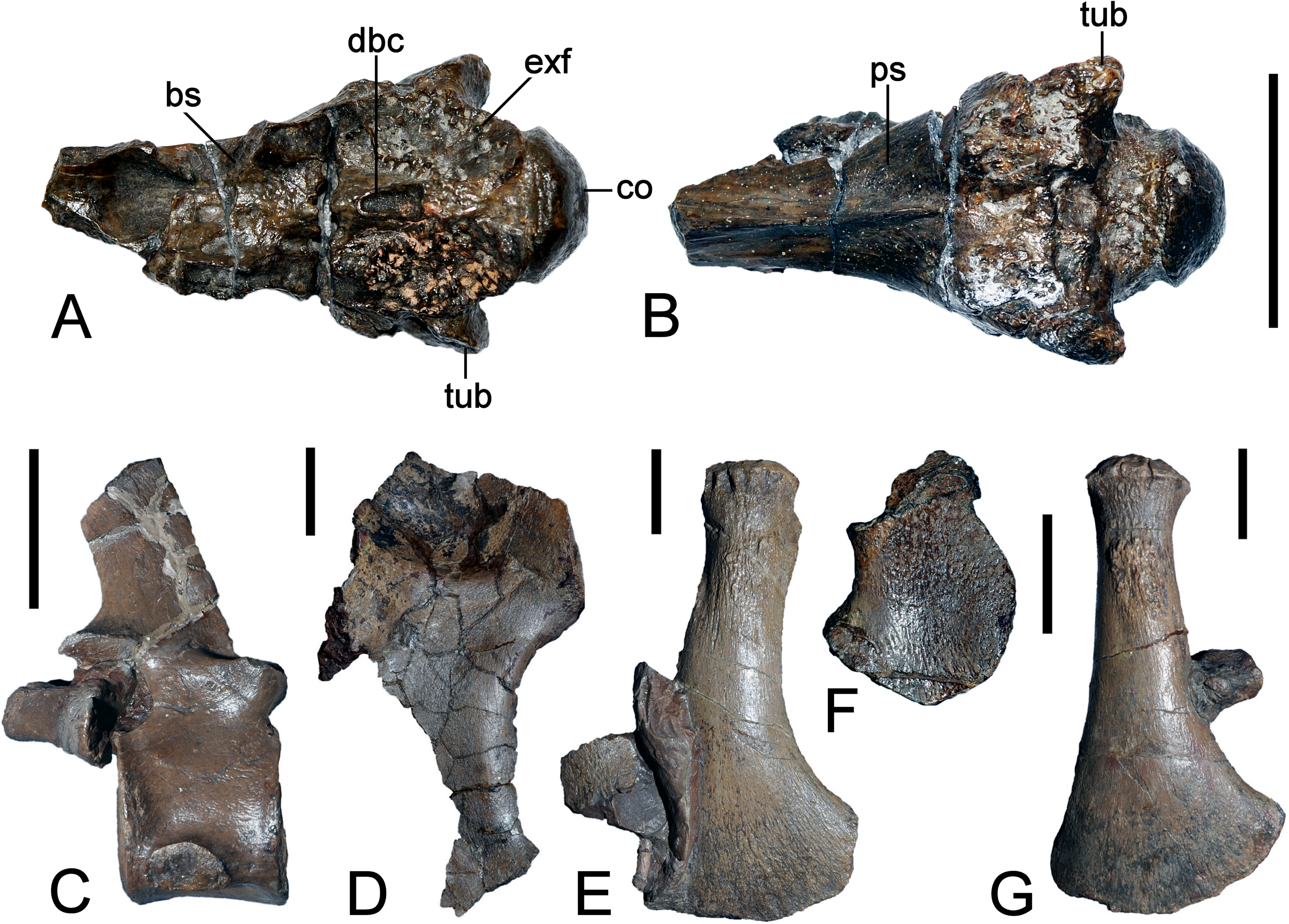 Brancasaurus brancai, referred specimen GPMM A3. B2 (holotype of Gronausaurus wegneri Hampe, 2013), Isterberg Formation, Gronau (Westfalen). (A, B) Basioccipital and basisphenoid-parasphenoid complex in (A) dorsal, and (B) ventral views; (C) cervical vertebra in lateral view; (D) left coracoid in ventral view; (E) right humerus in ventral view; (F) fibula in ventral view; (G) right femur in ventral view. Scale bars in (A) = 30 mm; (C–G) = 50 mm. Abbreviations: bs, basisphenoid; co, condylus occipitalis; dbc, depression in basioccipital; exf, facet to exoccipital-opisthotic and prootic; tub, tubera.